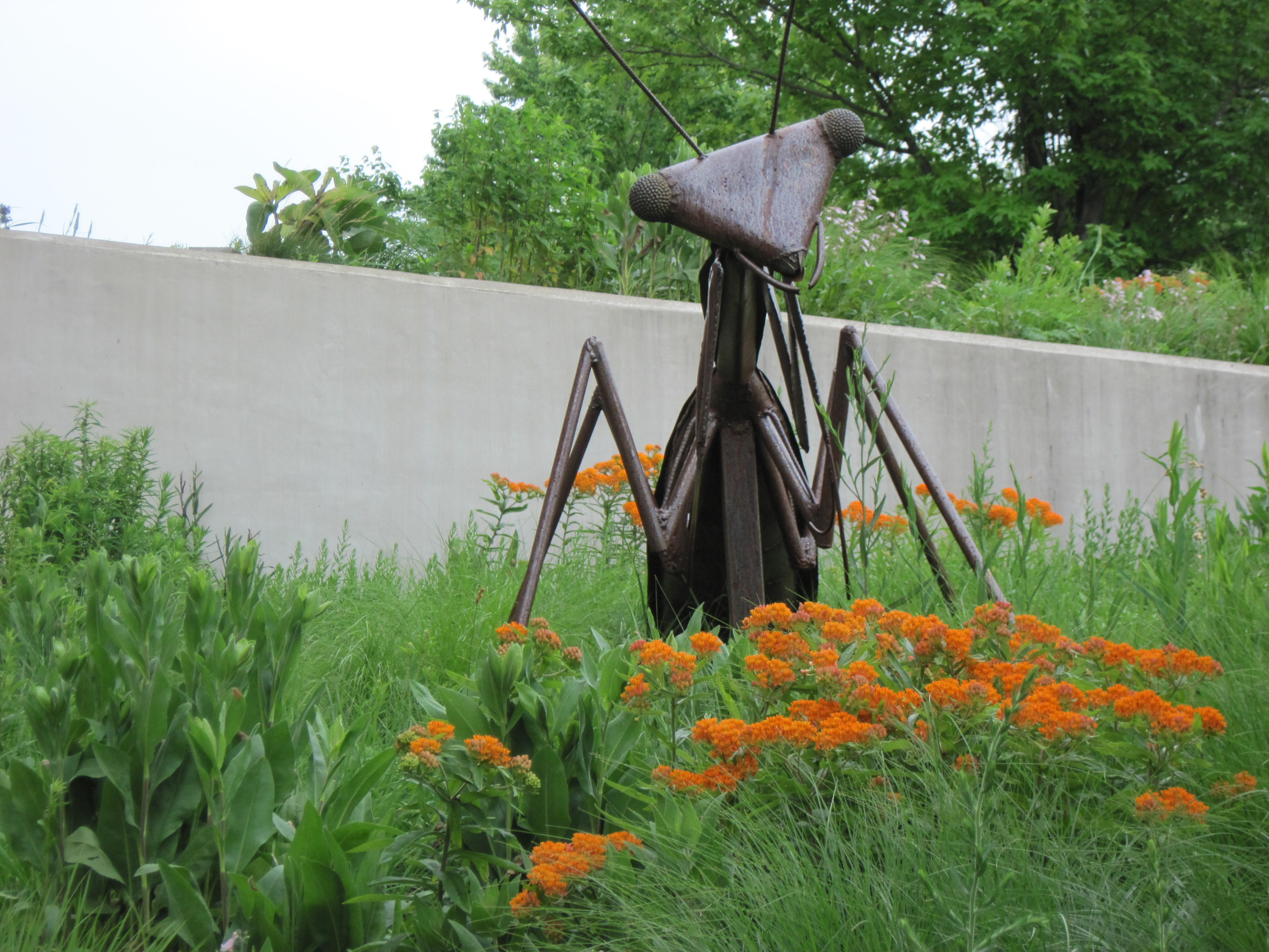 A photo of a sculpture installed at FPL created by a local artist